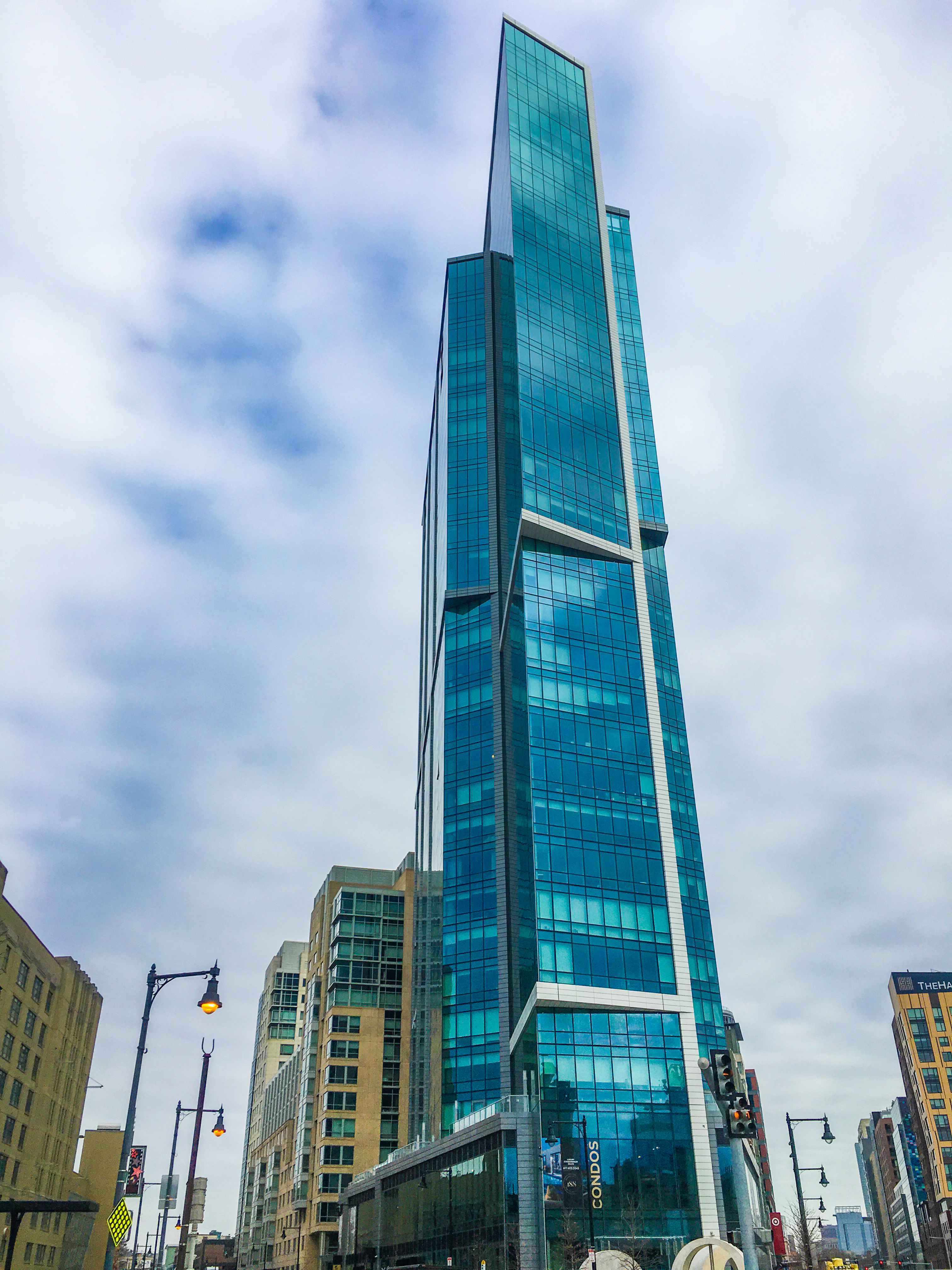 Pierce Boston, January 2019